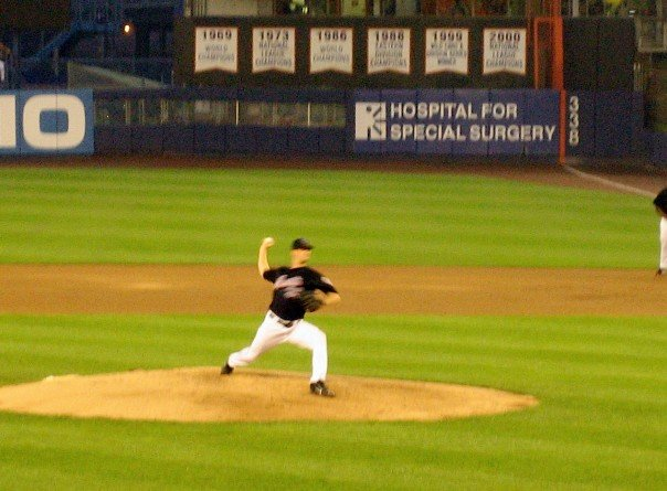 I attended a Mets-Astros game at Shea Stadium on July 21, 2006 and took this picture of Maine delivering a pitch 04:58, 21 June 2007 . . Zookman12 . . 604×445 (60 KB)